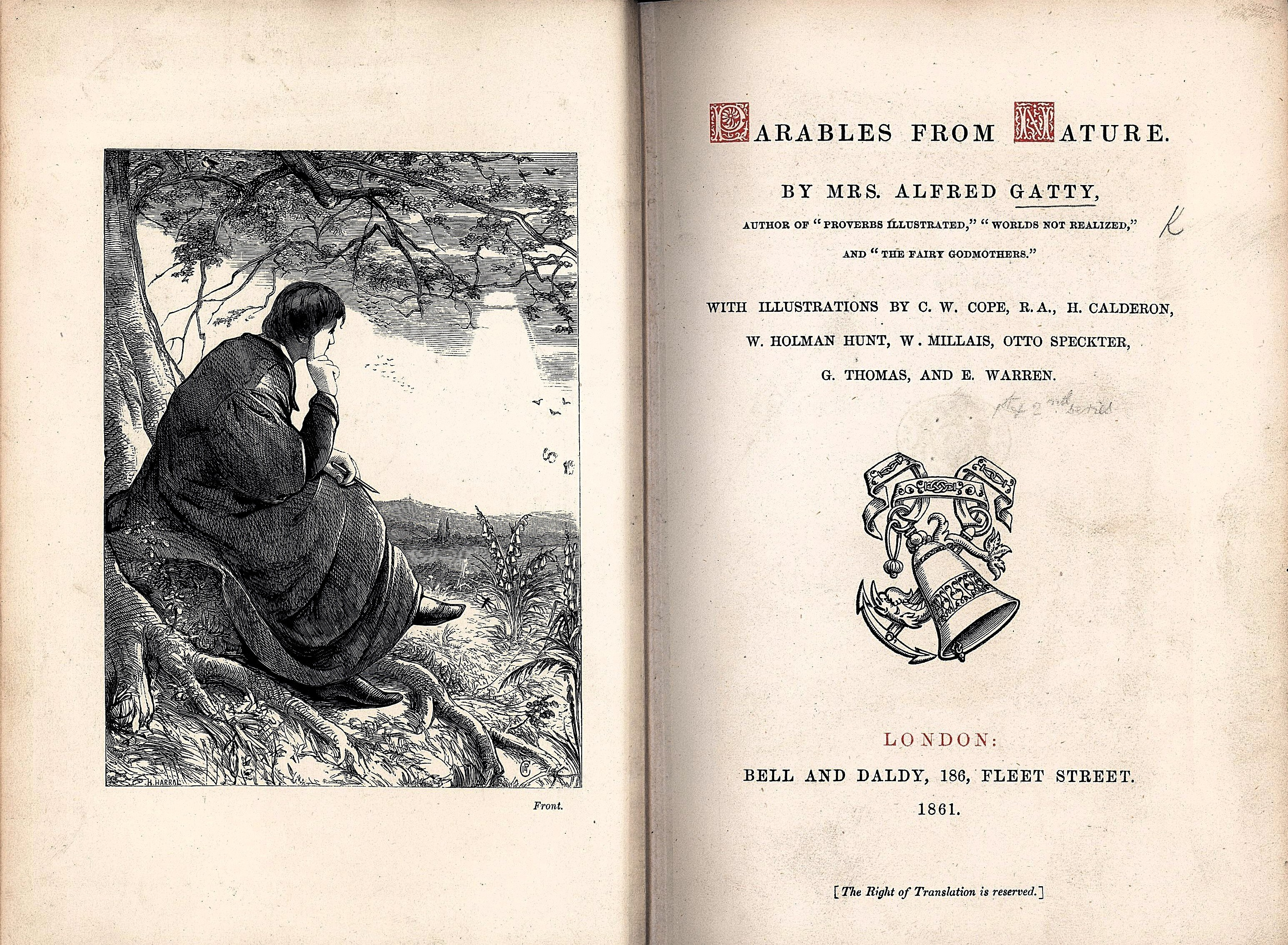 Mrs Alfred Gatty. Parables from Nature, Bell & Daldy